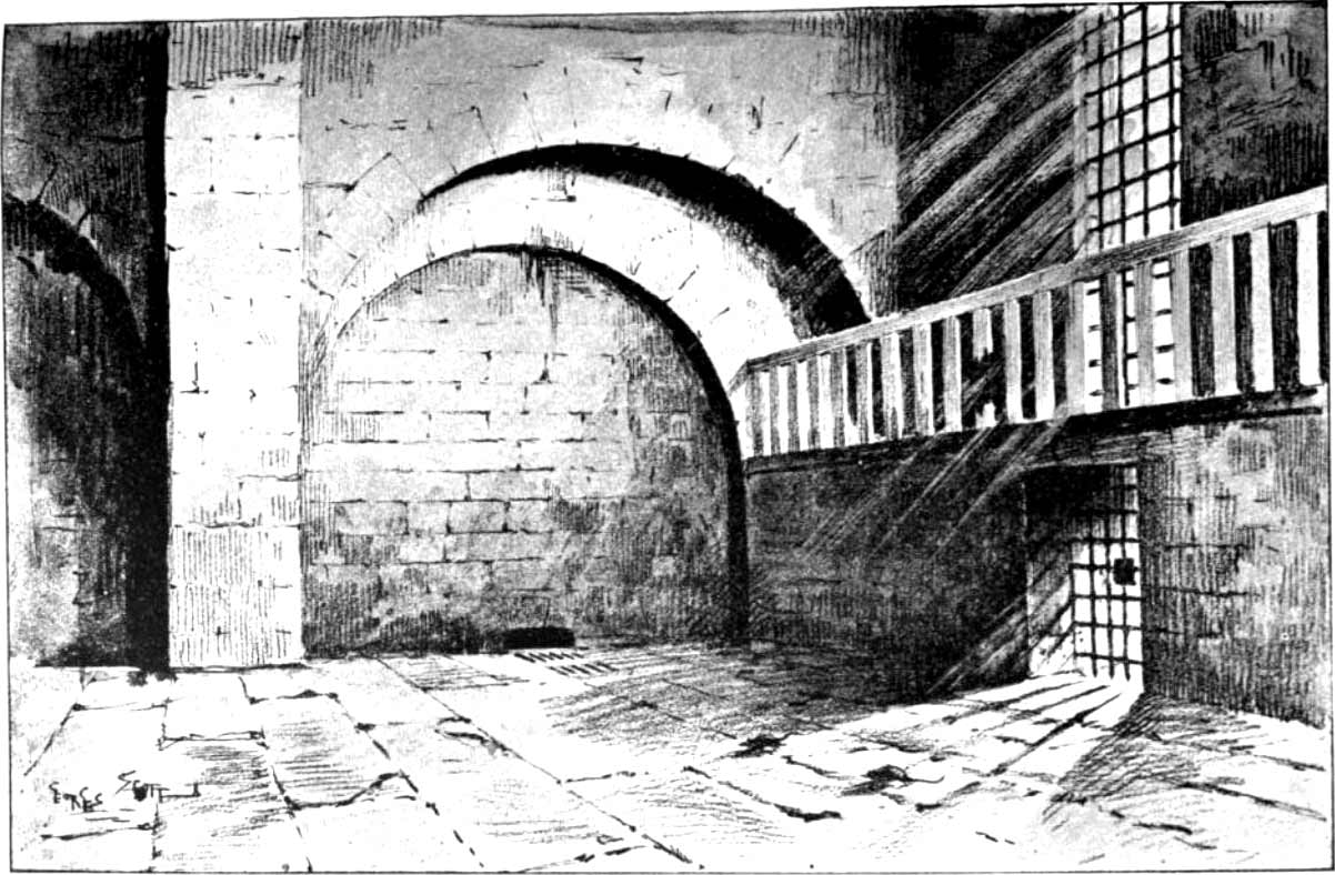 The Chapel of the Abbaye Prison in Paris, France, 1793.